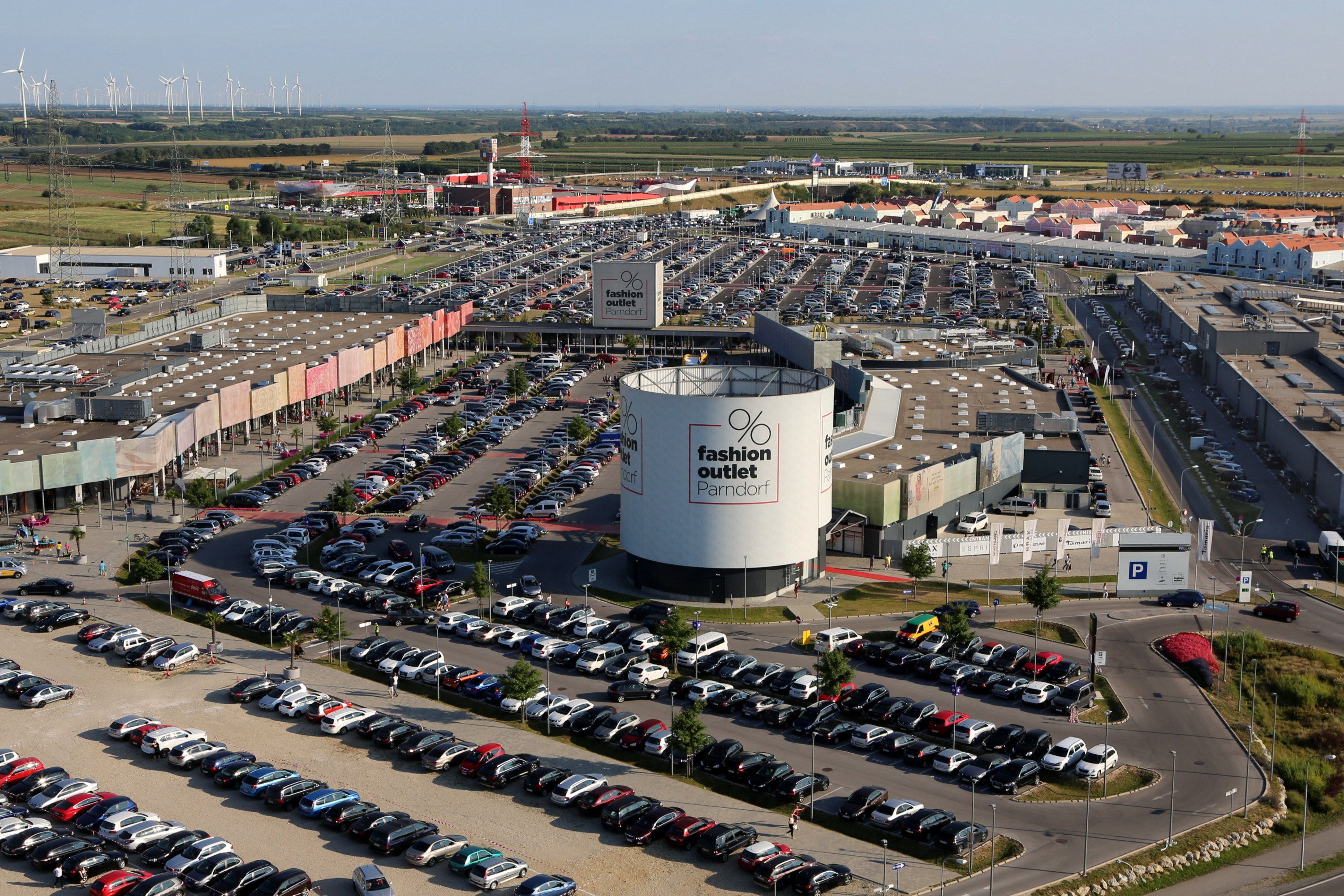 Parndorf - Fashion Outlet